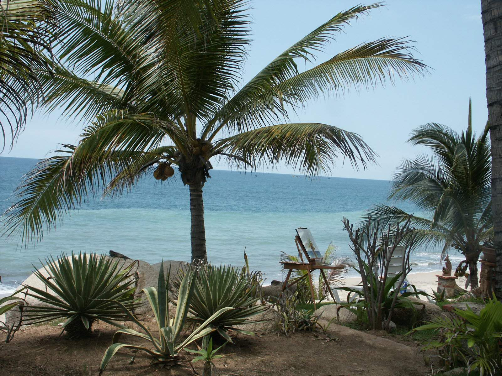 Visit to the beach Sayulita from a house of rest. State of Nayarit, Mexico